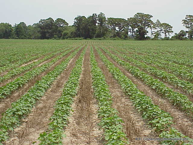 Cotton planted in the North Carolina coastal plain using strip-till methods